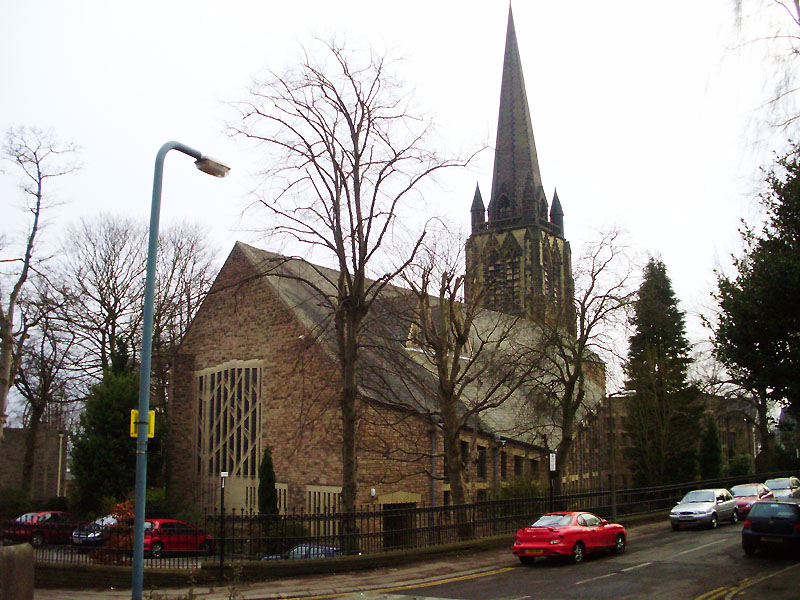 St Mark's parish church, Broomhill, Sheffield, South Yorkshire, England, seen from the north from Broomfield Road